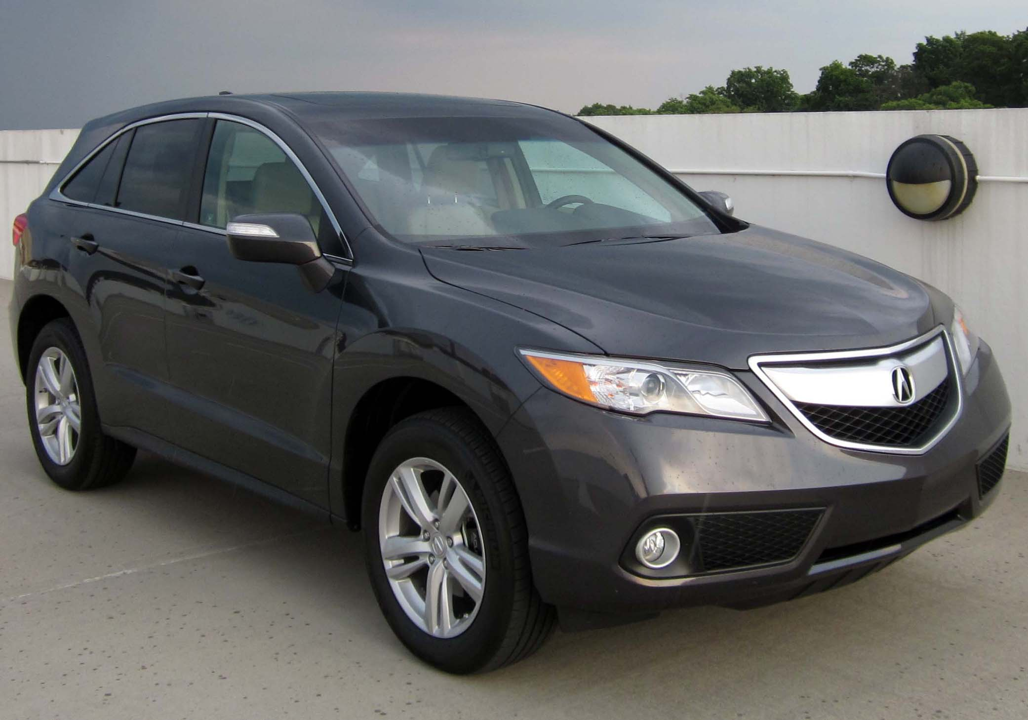 2013 Acura RDX photographed in College Park, Maryland, USA.